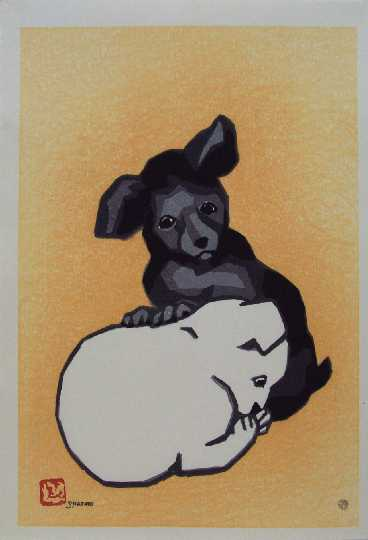 "Two Little Puppies"